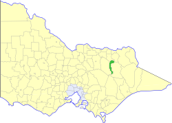 Location of the Shire of Myrtleford within Victoria.